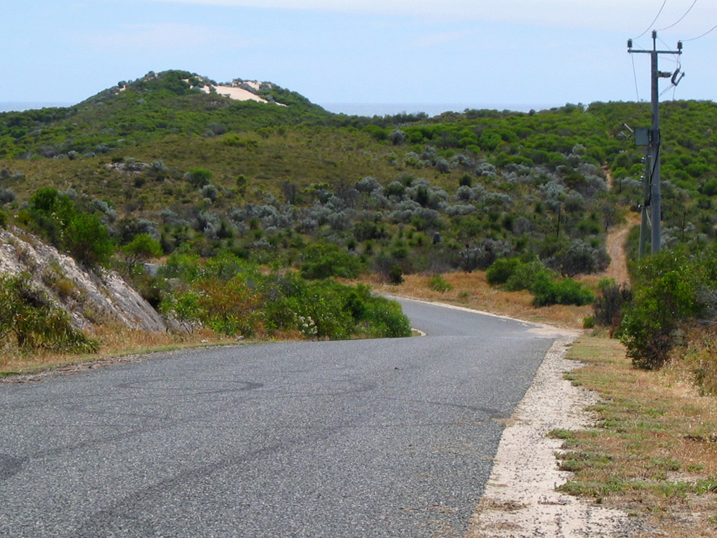 View west along Pipidinny Road near future track of Marmion Avenue towards the coast at Eglinton, Western Australia, a northern suburb of Perth.